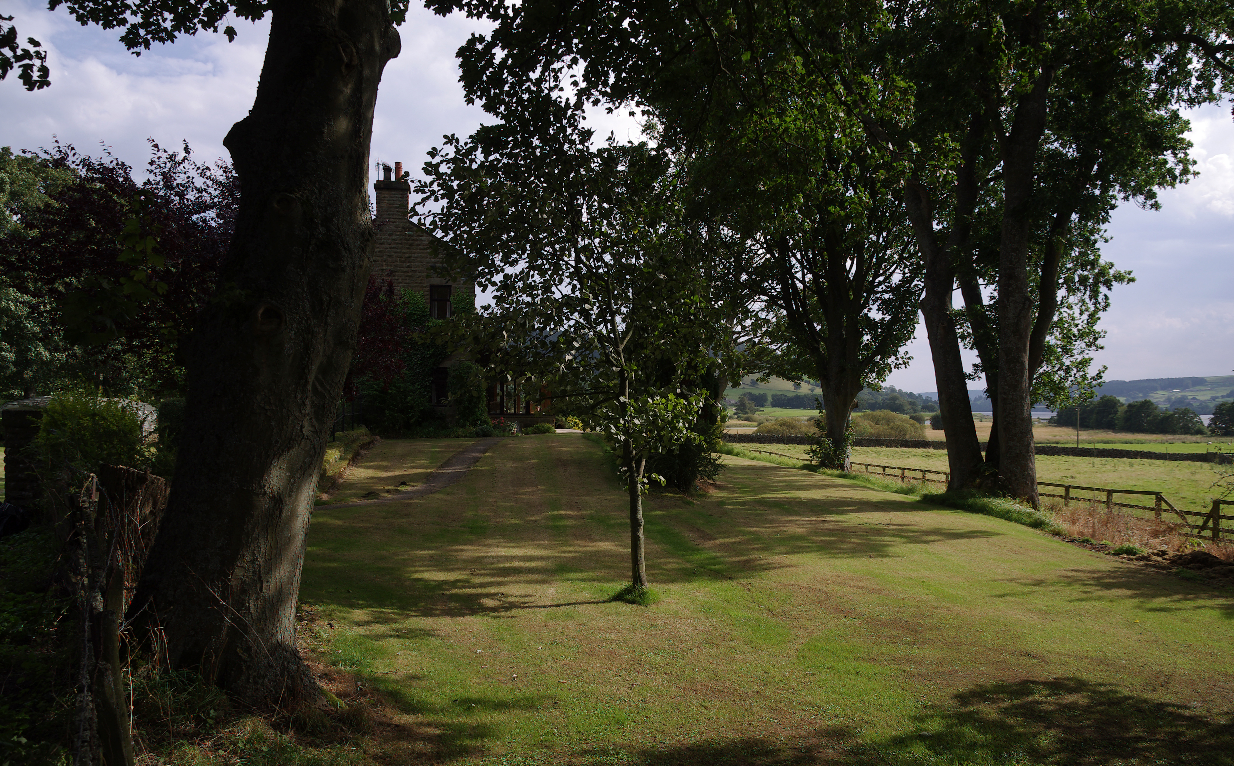 The old station building of Ramsgill railway station on the Nidd Valley Light Railway in Nidderdale, Yorkshire. The line was closed in 1929, the building is now a private house. Intriguingly, Ramsgill station is not actually in Ramsgill, but in Bouthwaite.